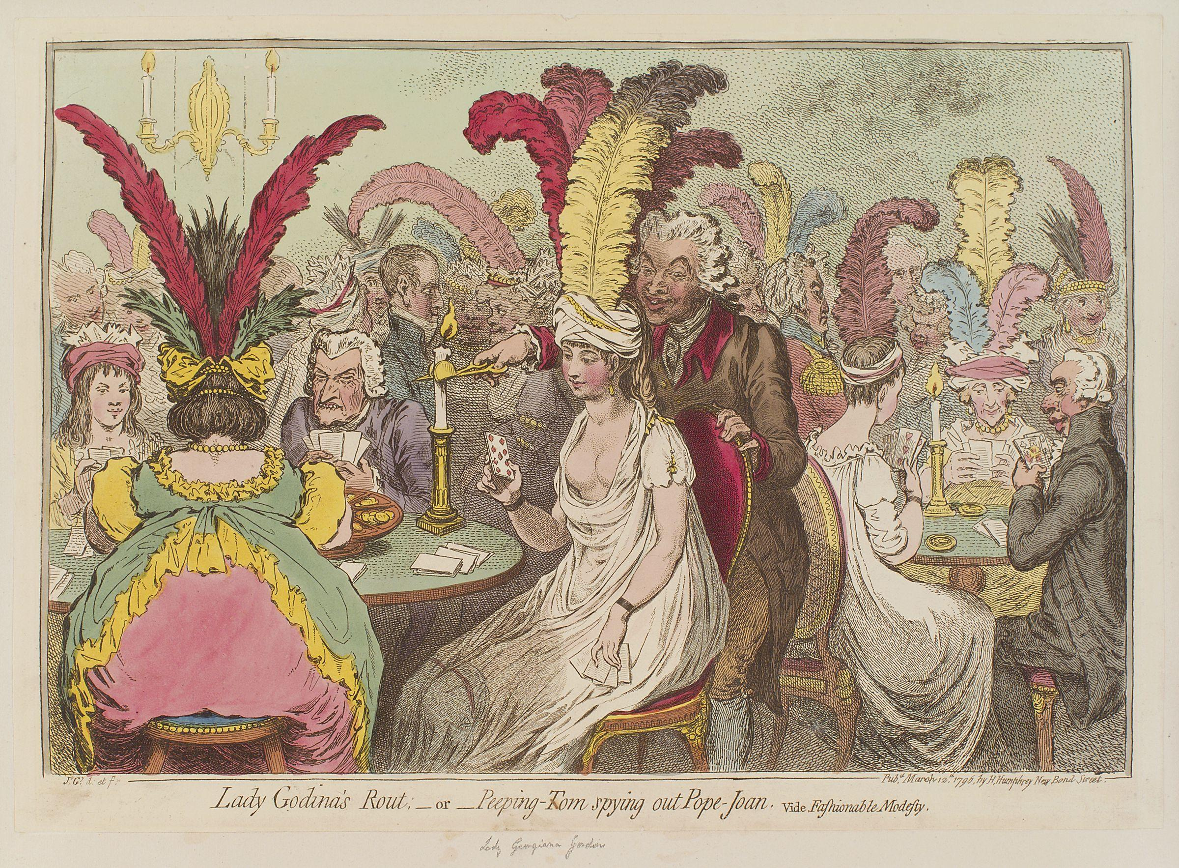 Lady Godina's rout; - or - Peeping-Tom spying out Pope-Joan, by James Gillray (died 1815), published 1796. According to the National Portrait Gallery of the UK, the caricature refers to Lady Georgiana Gordon (1781–1853), Duchess of Bedford from 1803 until her death; the title and the lecherous servant refer to Lady Godiva. Pope-Joan is a card game; Lady "Godina" is holding the diamond nine, which is called the "Pope" in that game. The man sitting on Lady "Godina"'s right is John Sneyd (1763–1835); the fat woman sitting on her left is Albinia, Countess of Buckinghamshire (died 1816). The fashion of women wearing vertical feathers or plumes in their head-dresses is abundantly satirized. All images in this batch have been confirmed as author died before 1939 according to the official death date listed by the NPG.